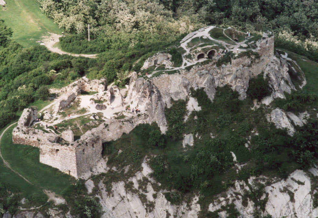 Castle - Sirok - Hungary - Europe